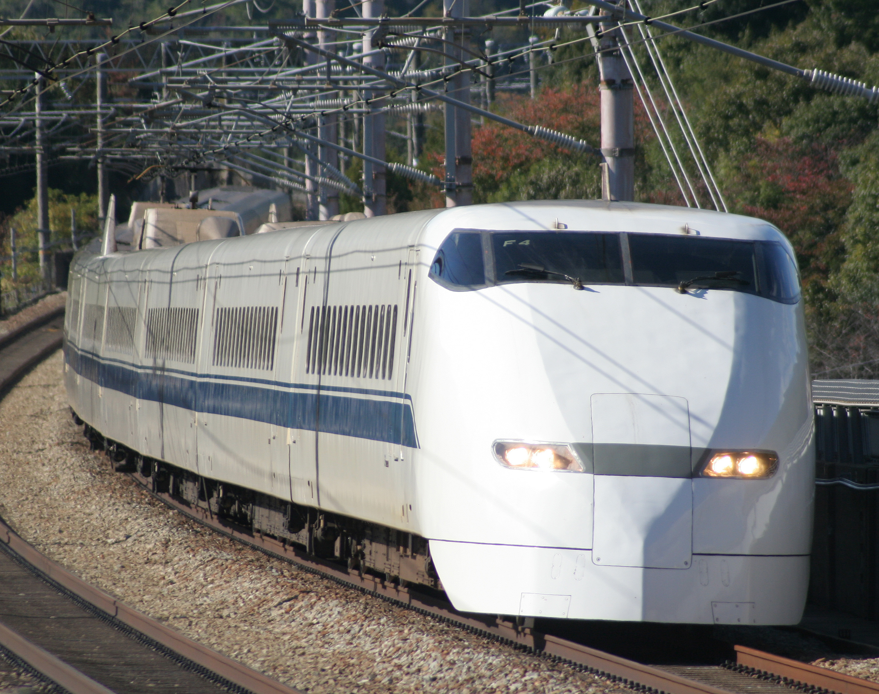 JR West 300 series set F4 on Hikari 472 service between Okayama and Aioi, 18 November 2009